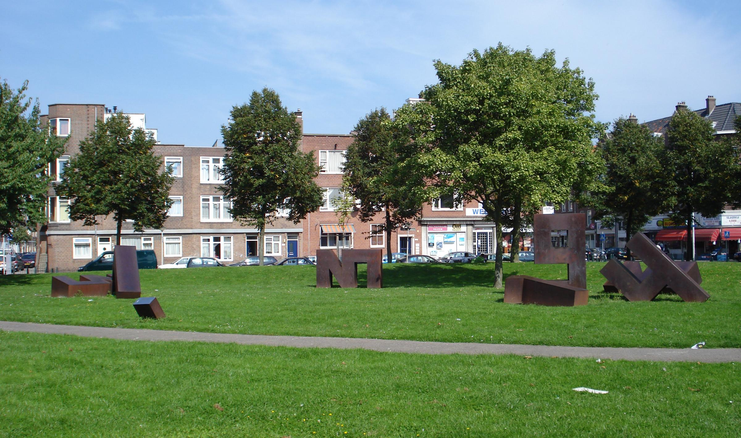 23-9-2008 Rotterdam West, Plein 1943. Sculpture: "Forgotten Bombardment" by Mathieu Ficheroux. Rotterdam, The Netherlands